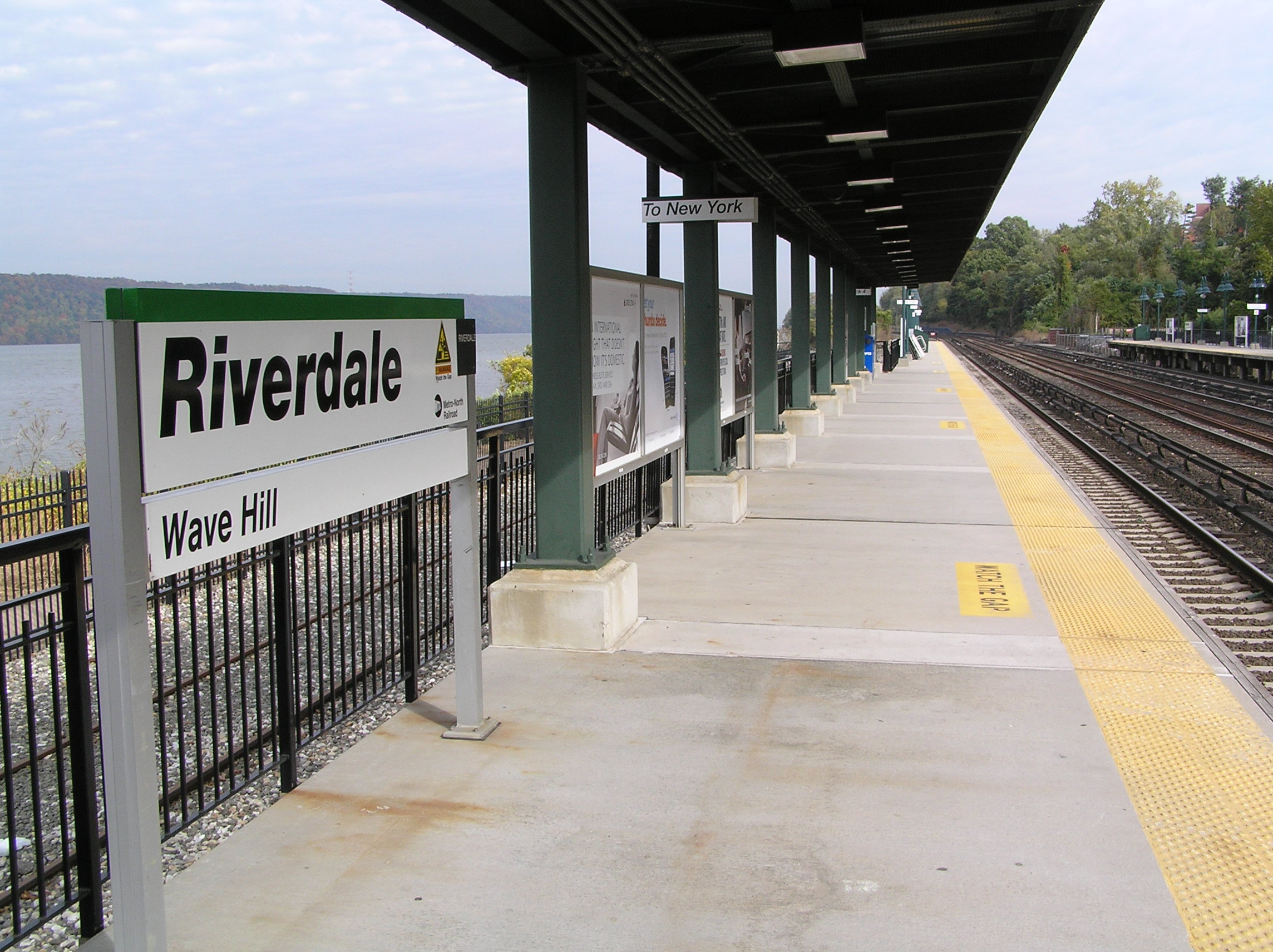 A photograph of the southbound Riverdale Metro North platform taken on Tuesday morning, October 22, 2013